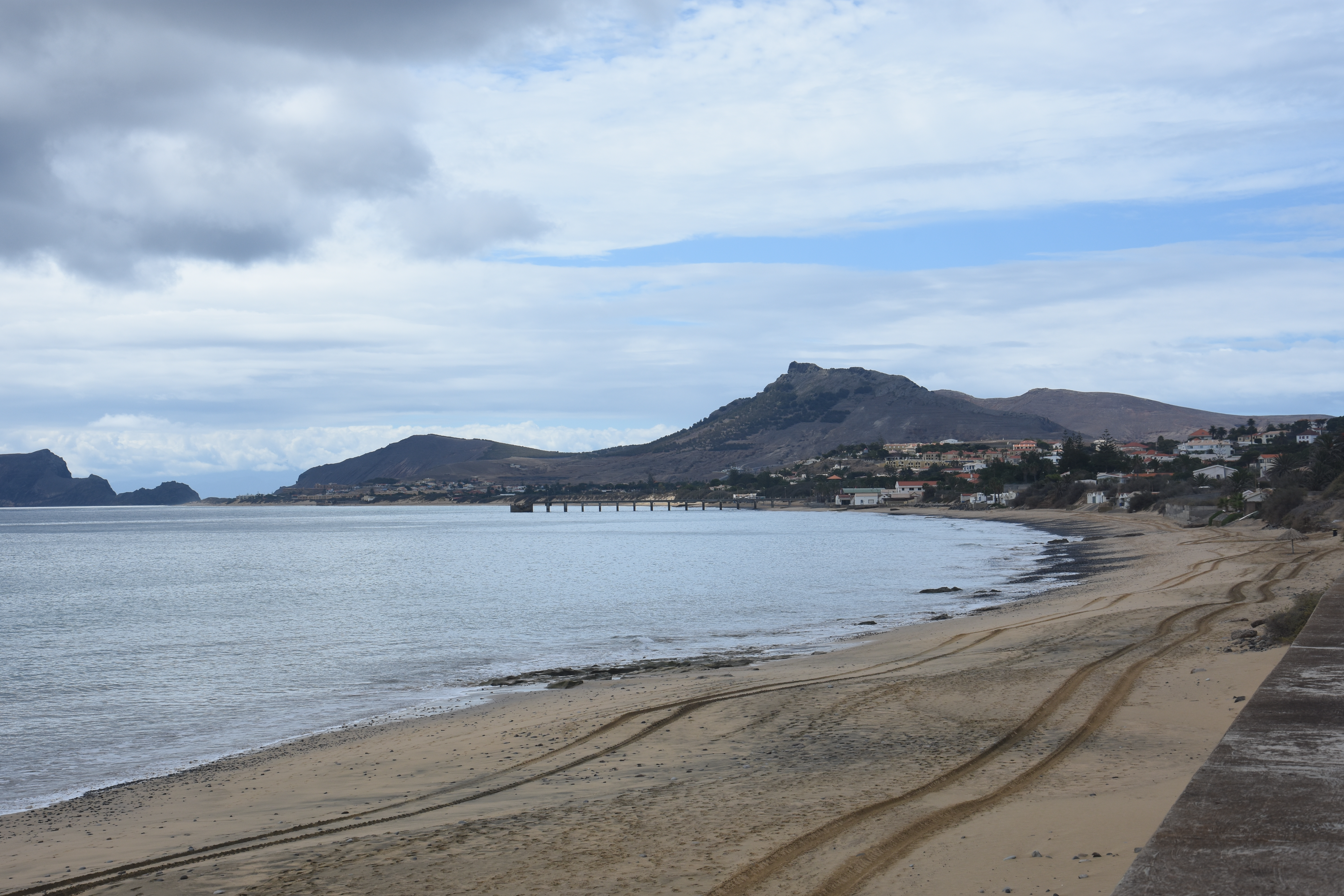 The large beach of the island of Porto Santo, Madeira, Portugal